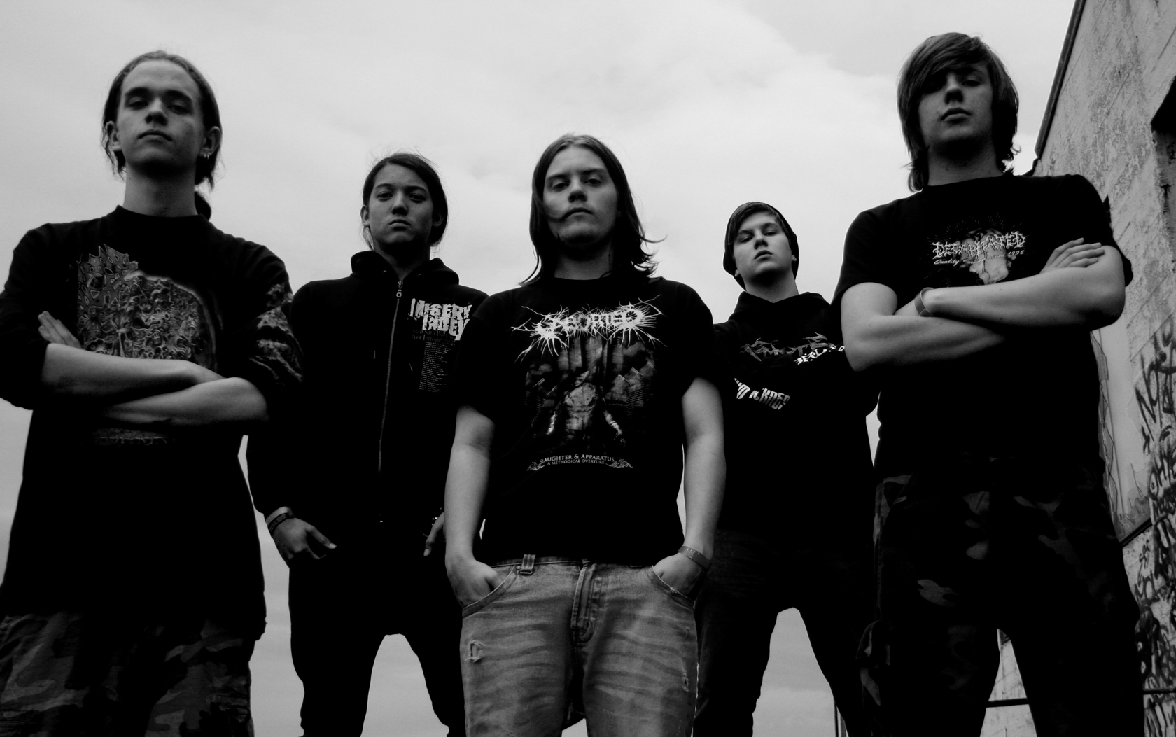 A group picture of the band Gone Postal